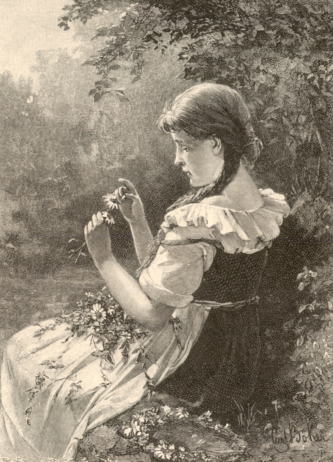 "Blumenorakel" (flower oracle/sortilege) by Carl Böker (1836-1905).